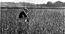 Crossing new breeds of wheats at Gartons Experimental Grounds.